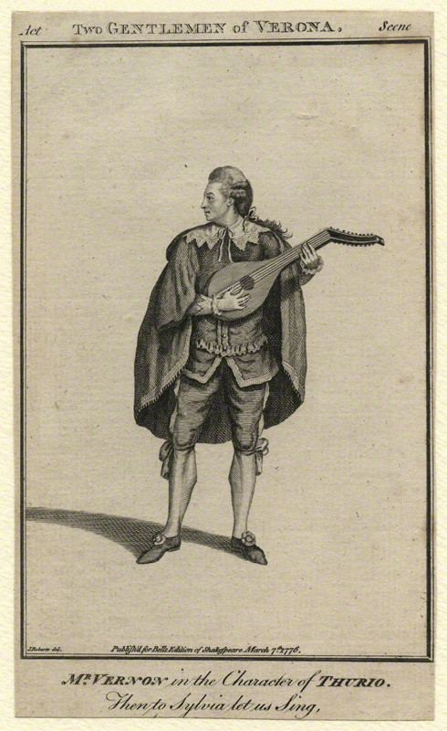 Portrait of Joseph Vernon (c.1738–1782), English actor and singer, in character as Thurio in The Two Gentlemen of Verona.